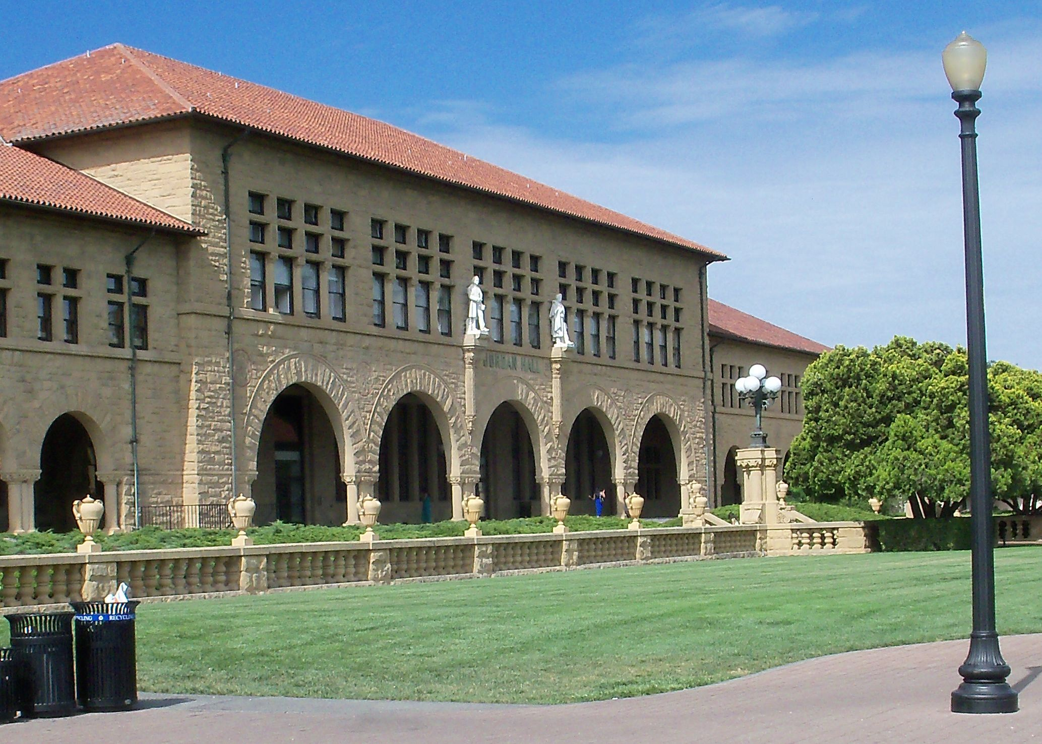 Picture of Jordan Hall with its statues of Humboldt and Agassiz and part of the balustrade of the Main Quad at Stanford University